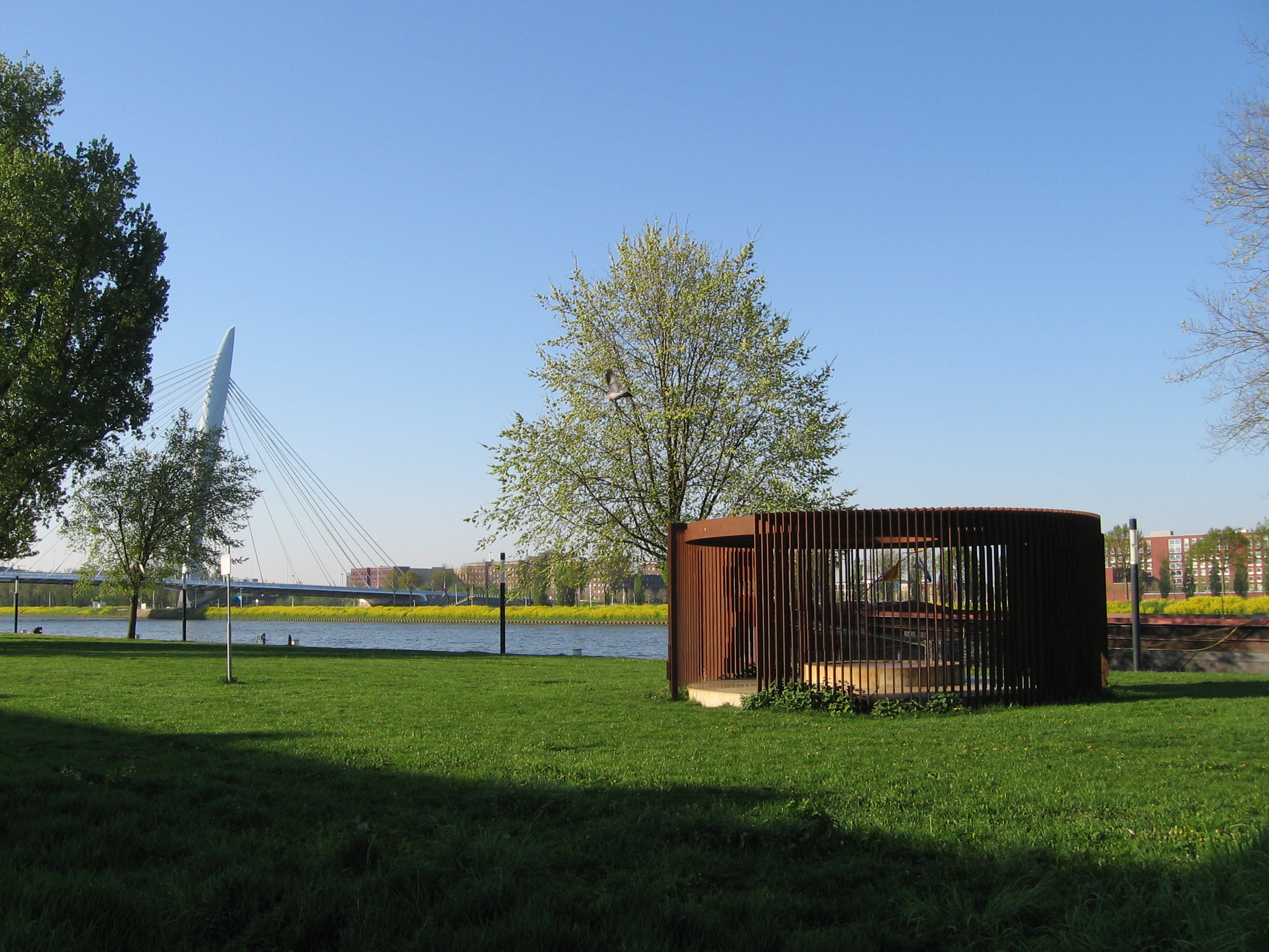 Martin Bril Pavilion, 2015, designed by Carve NL and Karel Martens, Kanaleneiland Utrecht